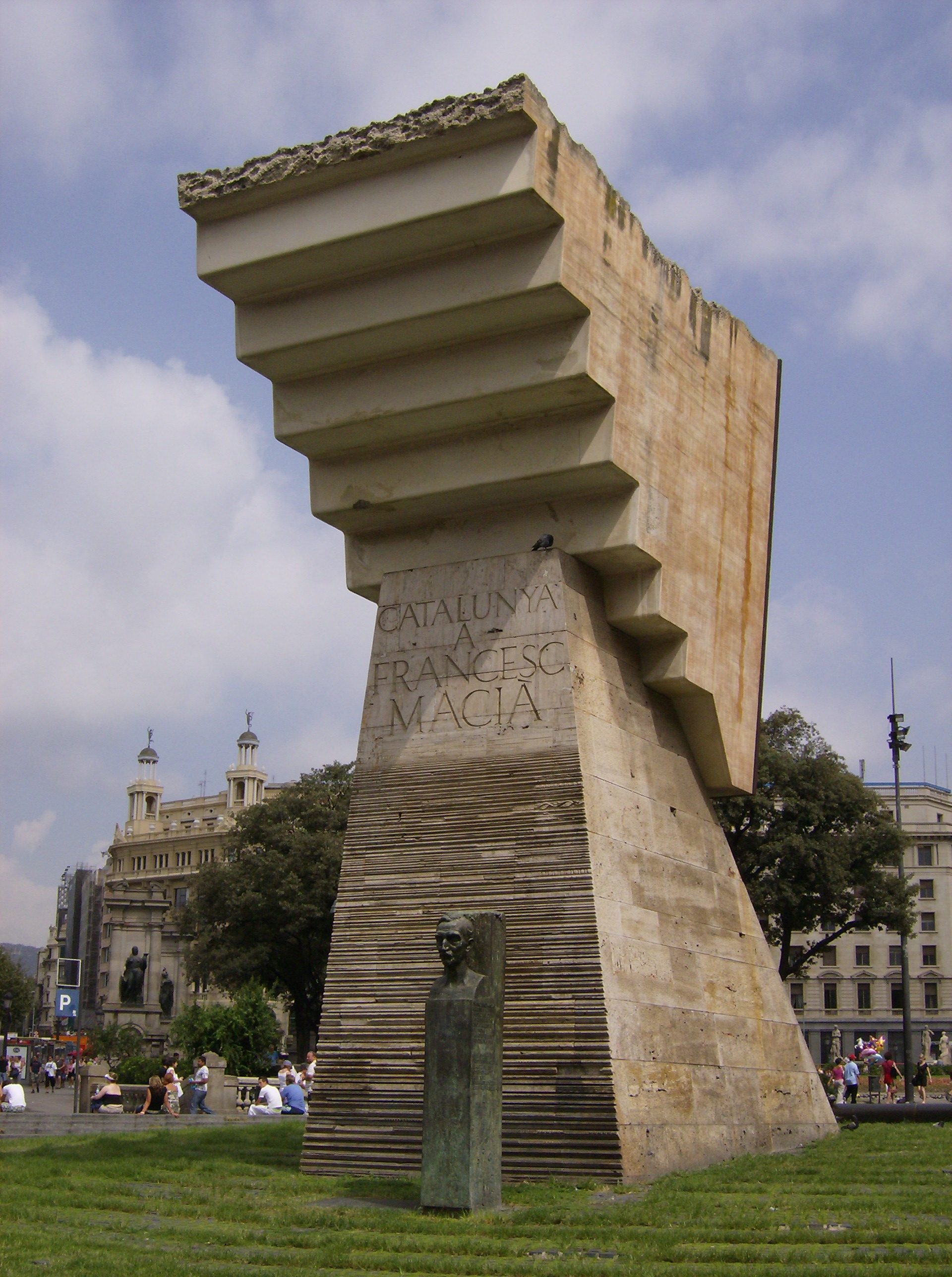 Monument to Francesc Macià, President of the Generalitat de Catalunya, on Plaça de Catalunya (Barcelona).